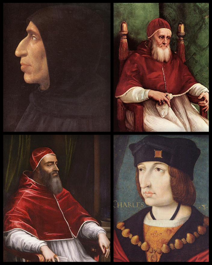 Charles_VIII_Ecole_Francaise_16th_century_Musee_de_Conde_Chantilly Giulio di Giuliano de' Medici, Pope Clement VII (1523-34), son of Giuliano de' Medici and nephew of Lorenzo the Magnificent. ==